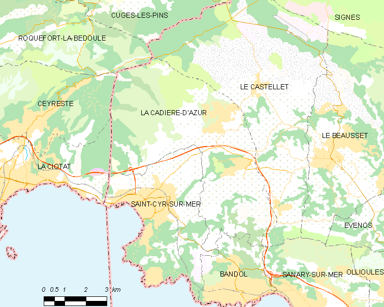 Map of French municipality La Cadière-d'Azur